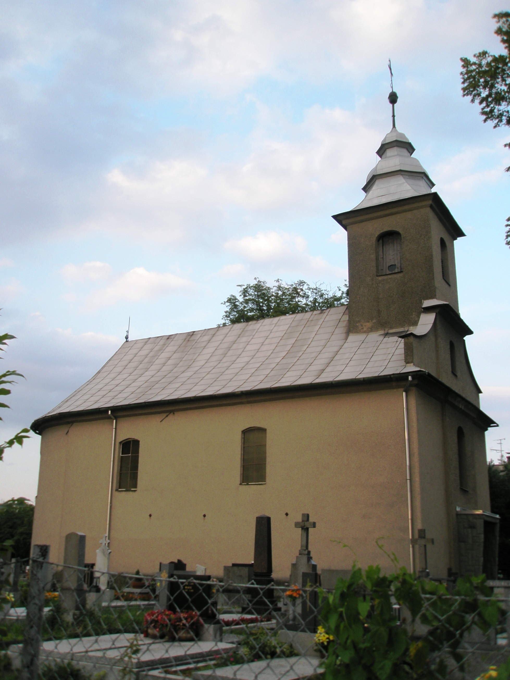 Střítež (Frýdek-Místek District), Catholic church